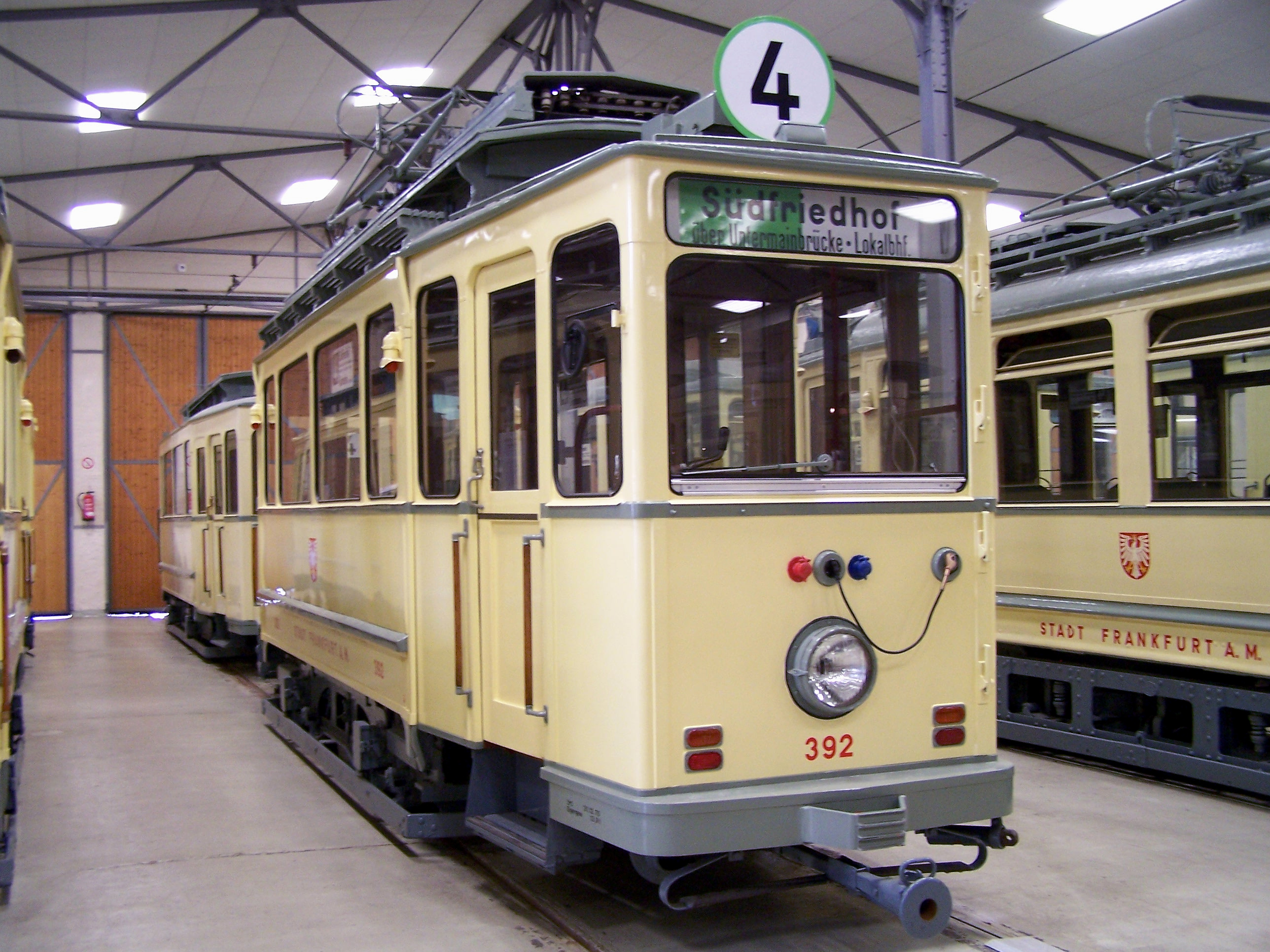 tram type D No 392 in the Frankfurt on Main Transport Museum in Frankfurt am Main--Schwanheim